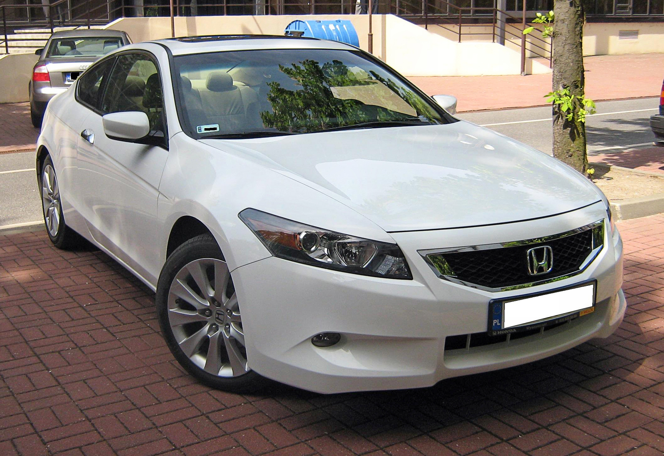 Notrh American Honda Accord VIII Coupe front - before exhibition TTM 2009 in Poznan.